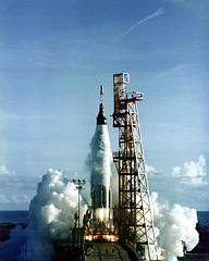 MA-8 LIFTOFF FROM LAUNCH COMPLEX 14 62PC-78.02 62PC-78.2, P-06431-B, ARCHIVE-03782 Lift off of MA-8.